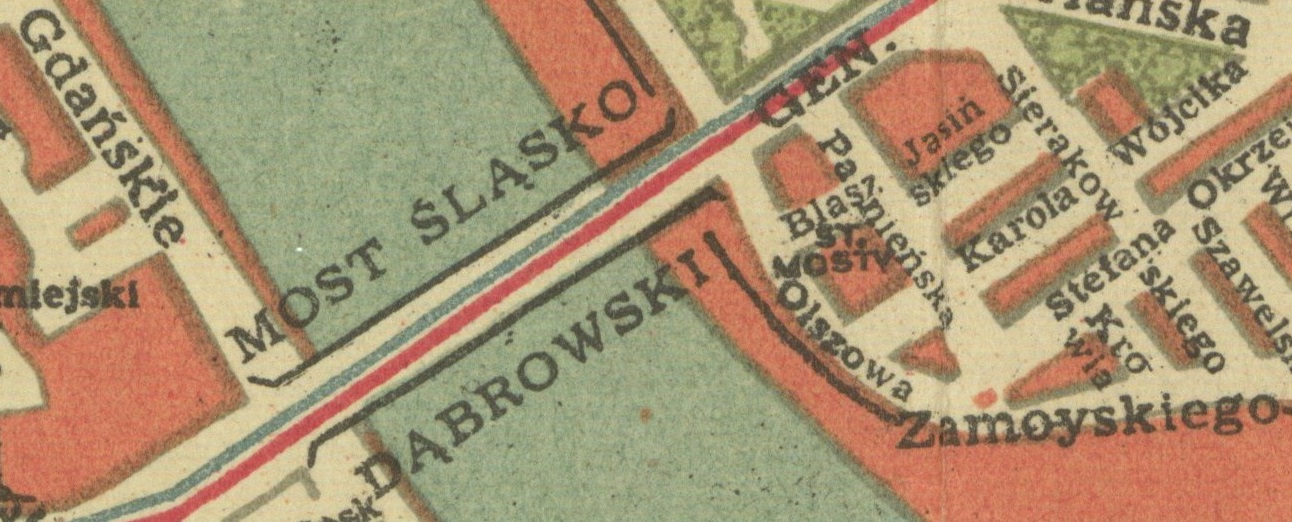 A parto f a map od Warsaw with Śląsko-Dąbrowski Bridge, 1950